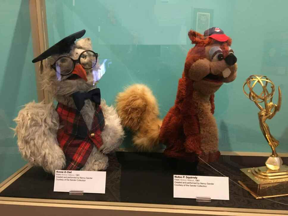 Puppets from Hickory Hideout as displayed at the Cleveland Public Library exhibit "The World of Puppets, from Stage to Screen" as of November 25, 2019